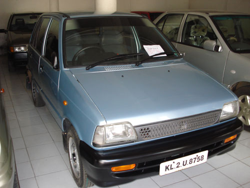 Maruti 800 AC parked in garage.